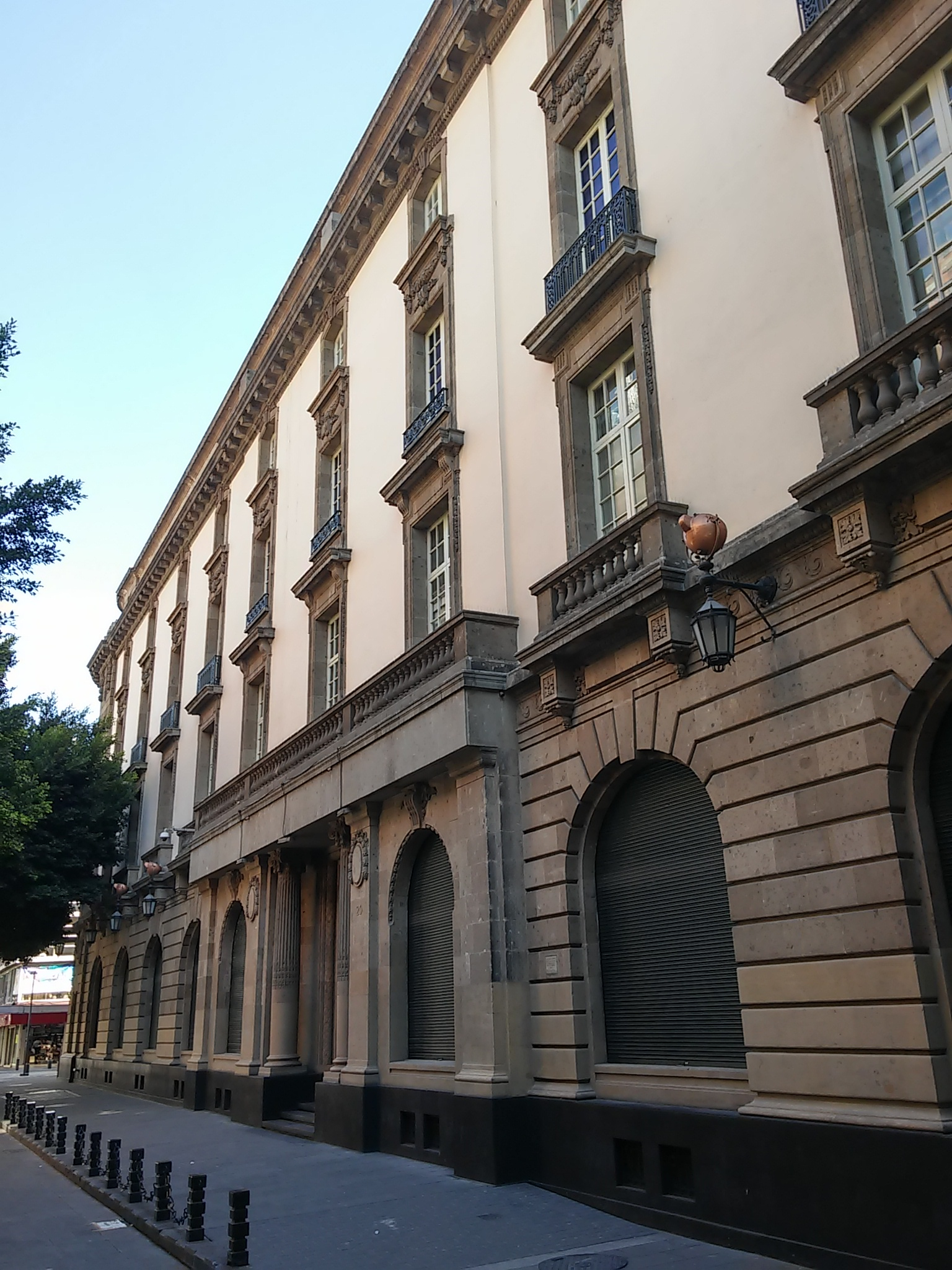 Edificio en la calle Gante 20 en el centro histórico de la ciudad de México